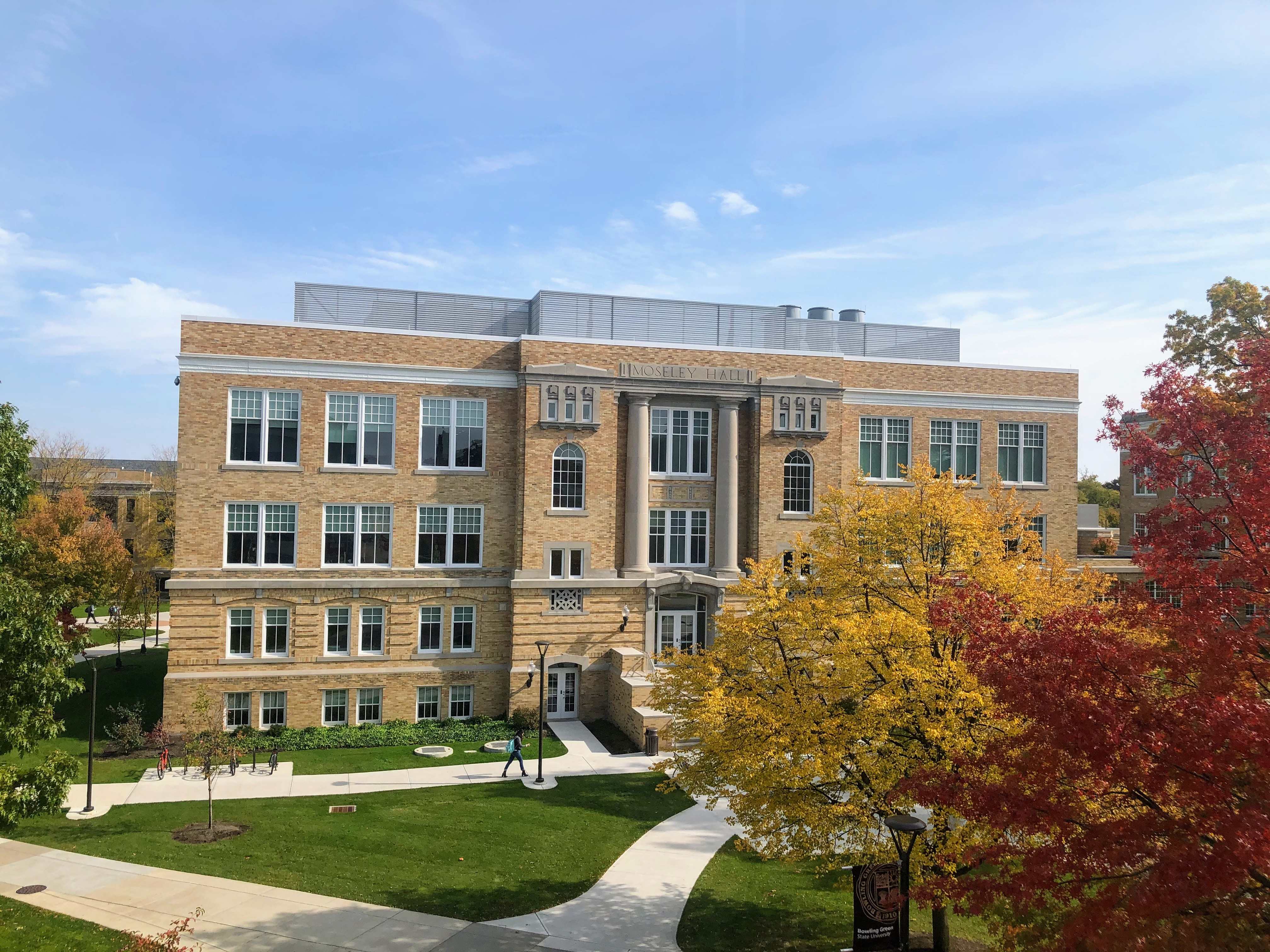 Mosley Hall in the Fall. All four floors of the building can be seen, as can an outdoor bike parking area. Photo taken from the third floor lounge of the Student Union. I uploaded this photo because it more accurately shows the size of the building then existing photos on the commons.